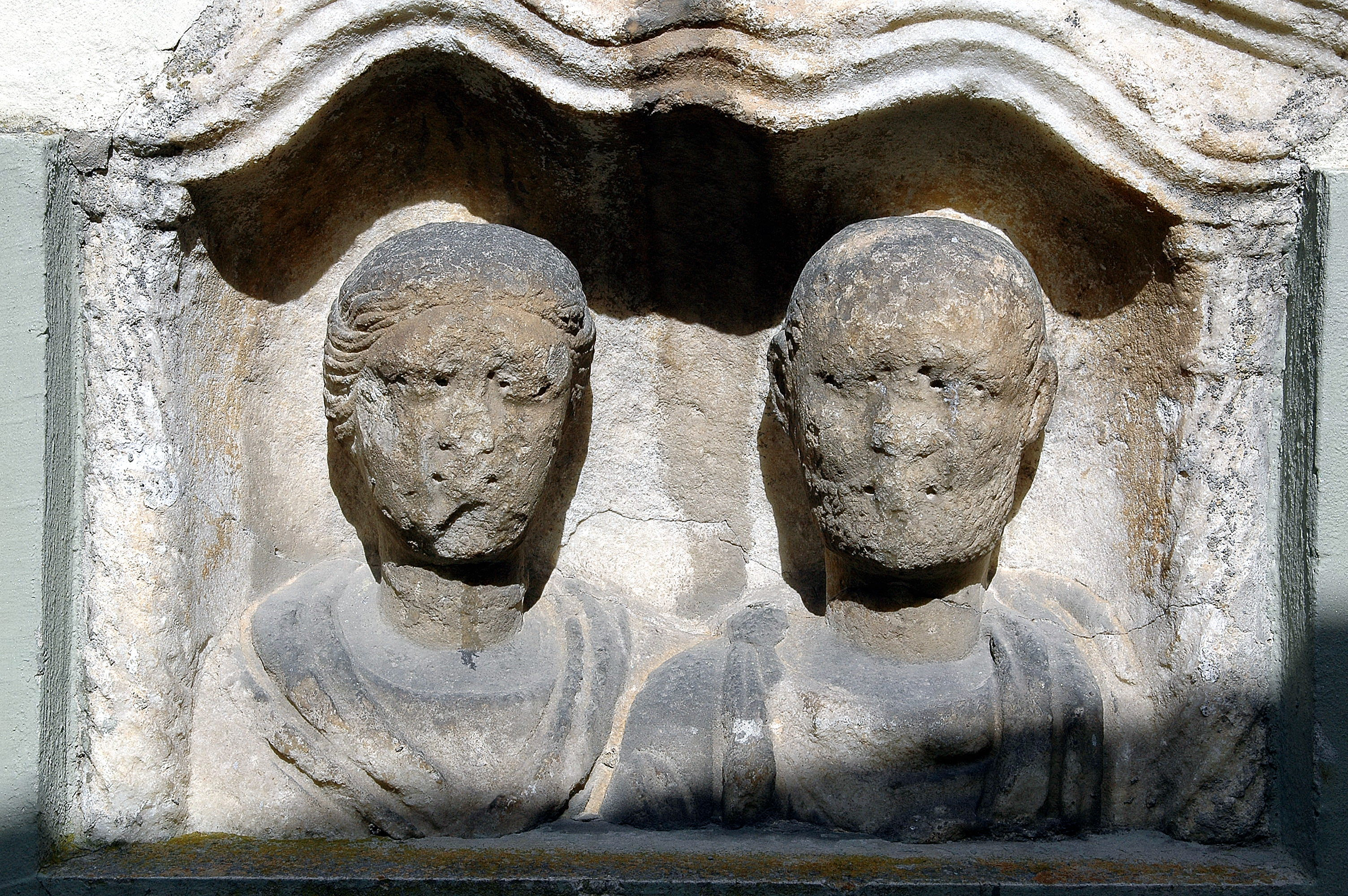 Upper part of a roman grave stela showing the heads of a married couple (CSIR II/2, 151), set up into the outside wall at the apsis` crest of the parish church Saints Michael and George in Moosburg, market town Moosburg, district Klagenfurt Land, Carinthia, Austria, EU